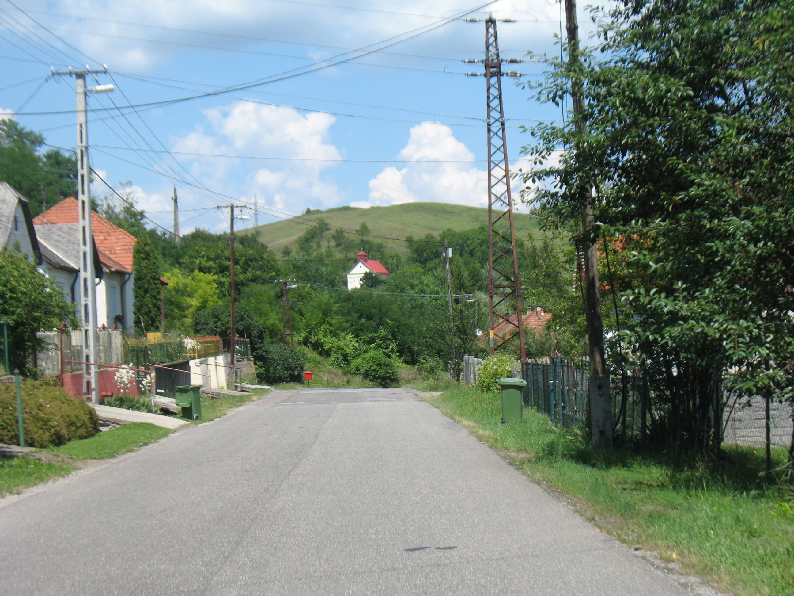 Church of the Nativity of the Virgin Mary, Bekölce